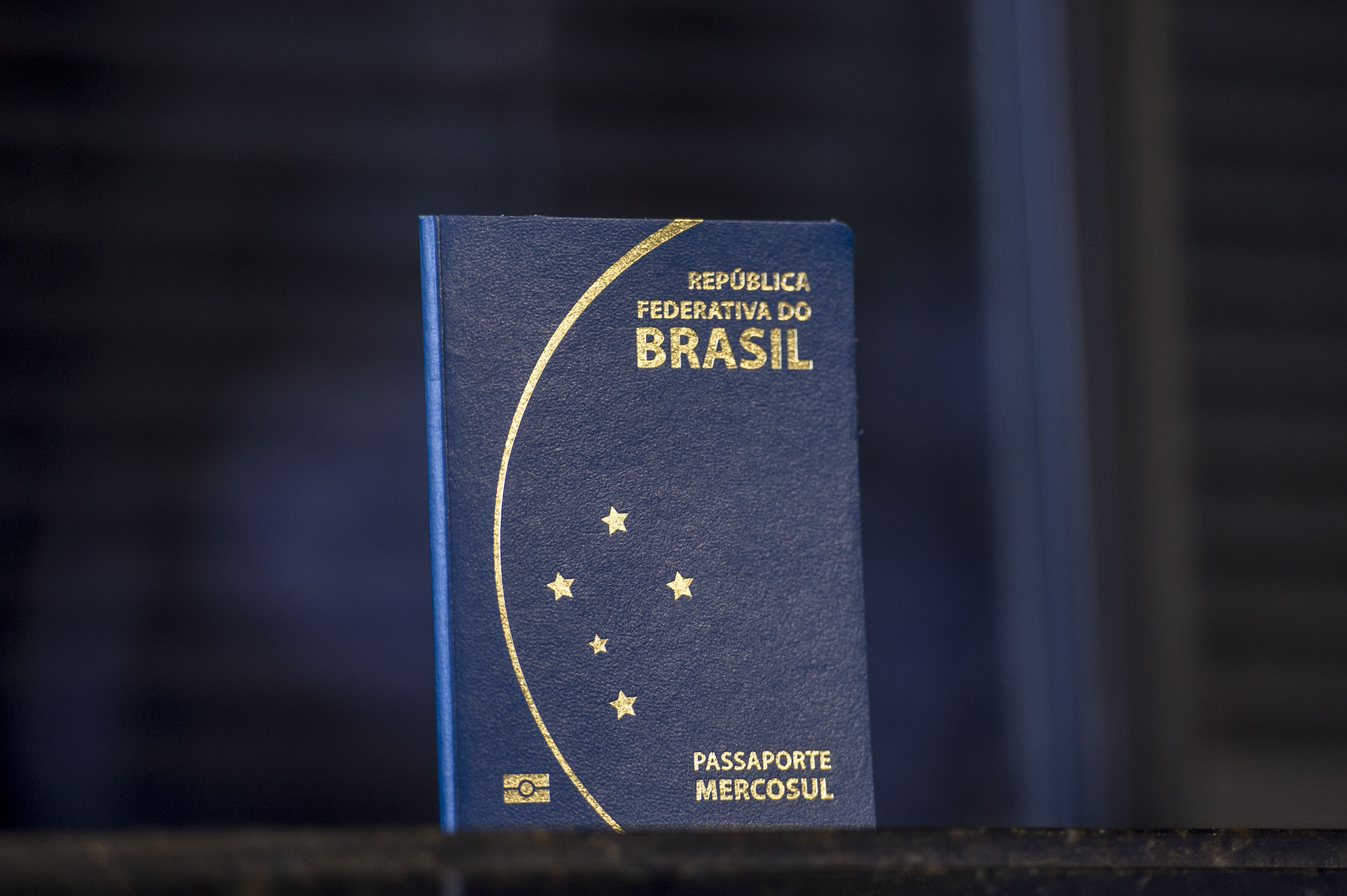 Brazilian passport introduced in 2015.